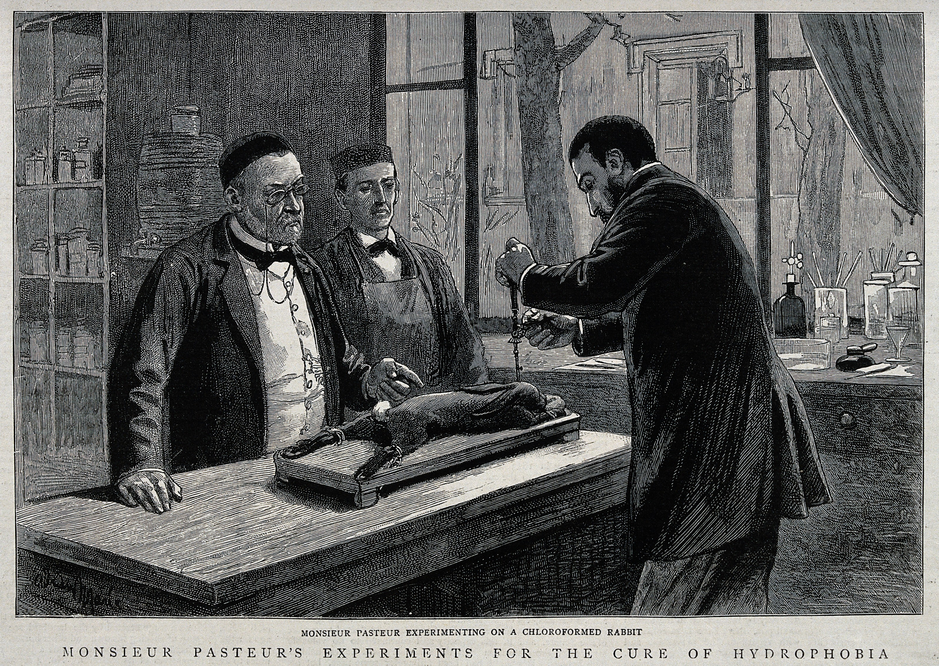 Louis Pasteur injecting rabies virus into a rabbit's brain, watched by two assistants. Iconographic Collections Keywords: Louis Pasteur